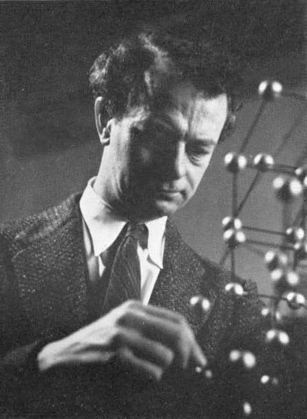 Linus Pauling at the California Institute of Technology